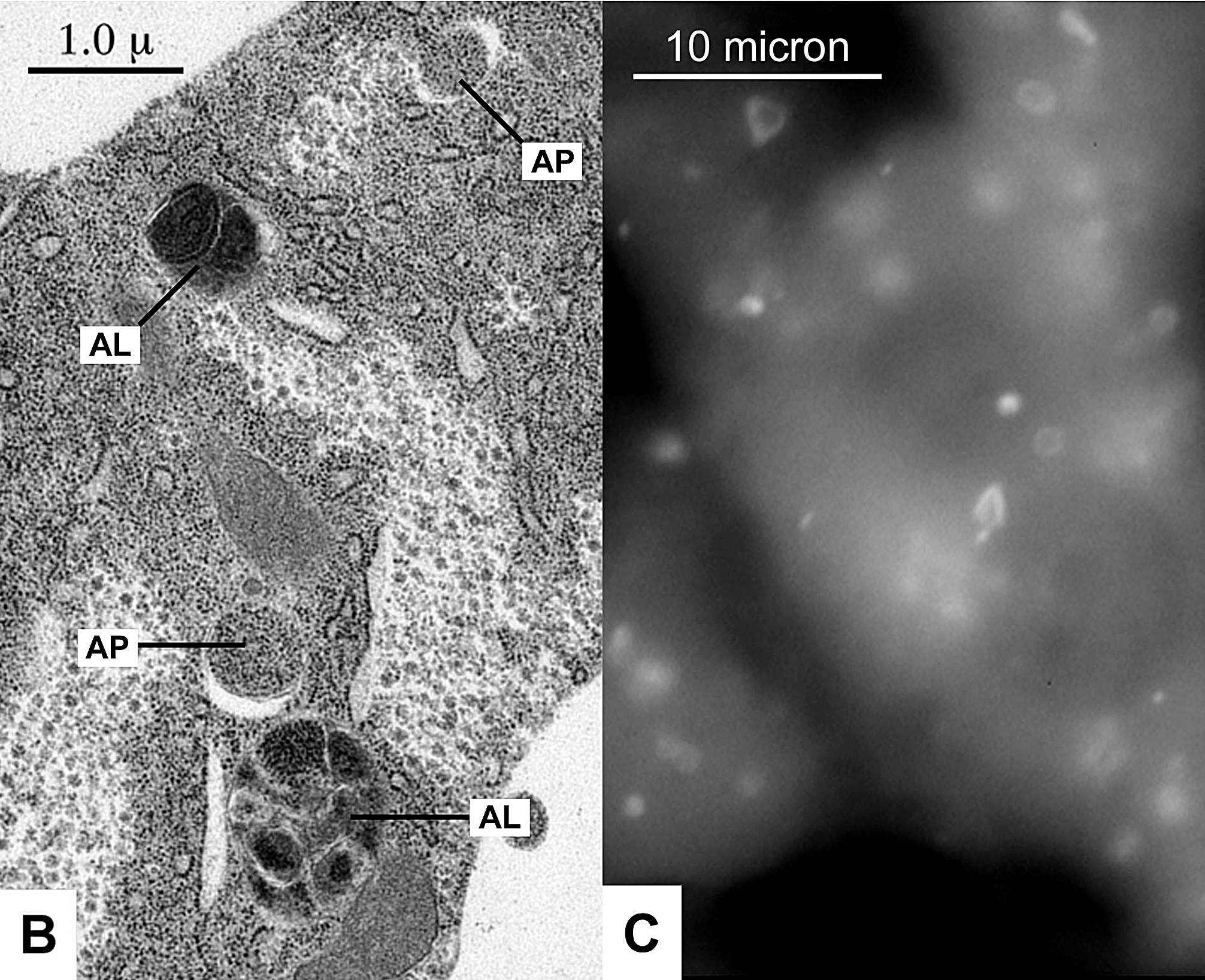 (B) Starvation-induced autophagosomes (AP) and autolysosomes (AL) in the fat body (the functional analogue of the liver) of a fruit fly larva. Note that APs contain intact cytoplasm, whereas the contents of ALs show various stages of degradation. (C) Liver cells of starved mice carrying a fluorescently tagged LC3 transgene, labeling cup-shaped and ring-shaped structures that correspond to IMs and autophagosomes, respectively. .